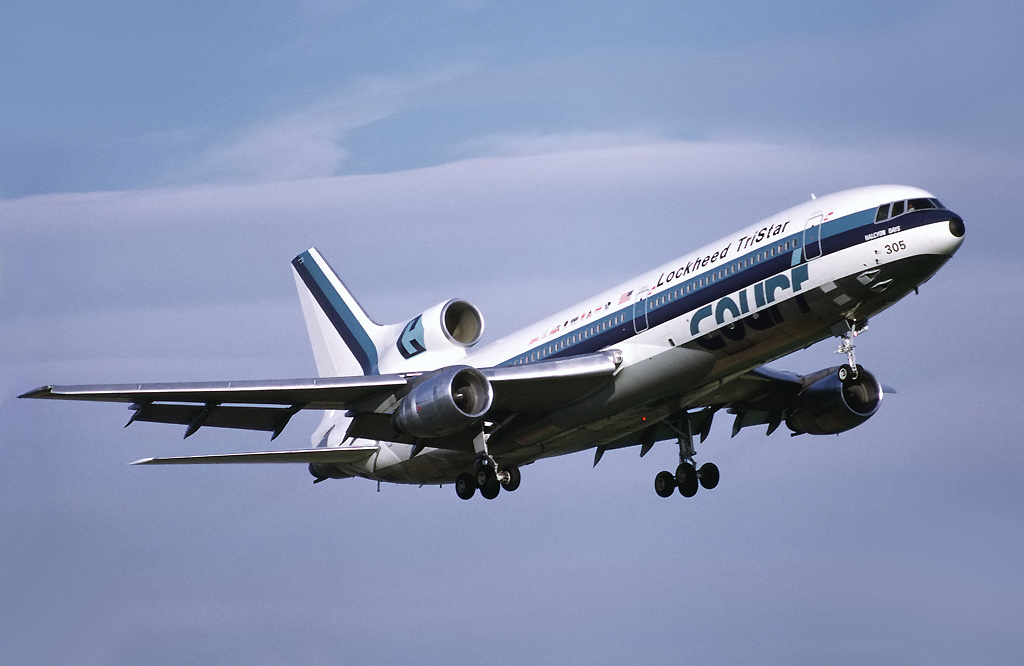 Part of this Lockheed demonstrator's world tour was a promotional flight for Court Line at Manchester prior to delivery to Eastern (23.11.72).